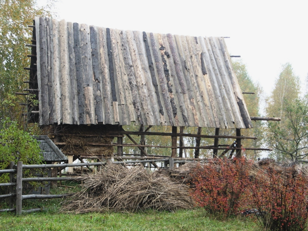 Traditional Belarussian building "Abaroh", Stroczycy